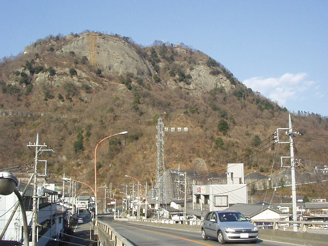 Mount Iwadono in Otsuki, Yamanashi prefecture, Japan. ja: 岩殿山 位置 - 山梨県、大月市、身太刀2丁目。国道139号の駒橋跨線橋から北向き。 撮影日 - 2004年1月3日。 撮影者 - Kinori。 中世に岩殿山城があり、現代は岩殿山公園として整備されている。 en: Mount Iwadono (Iwadono-yama) Place - Mitachi 2 chōme, Ōtsuki, Yamanashi prefecture, Japan. From the Komahashi Over-railway Bridge toward north. Date - January 3, 2004. Photogapher - Kinori. In medieval age there was the Iwadonoyama Castle, now is the Iwadonoyama Park. es: Monte Iwadono (Iwadono-yama) Lugar - Mitachi 2 chōme, Ōtsuki, la prefectura de Yamanashi, Japón. Desde el Puente Sobre Ferrocarril de Komahashi, hacia norte. Fecha - Enero 3, 2004. Allí hay el Castillo Iwadonoyama en el medievo y ahora el Pauque Iwadonoyama.